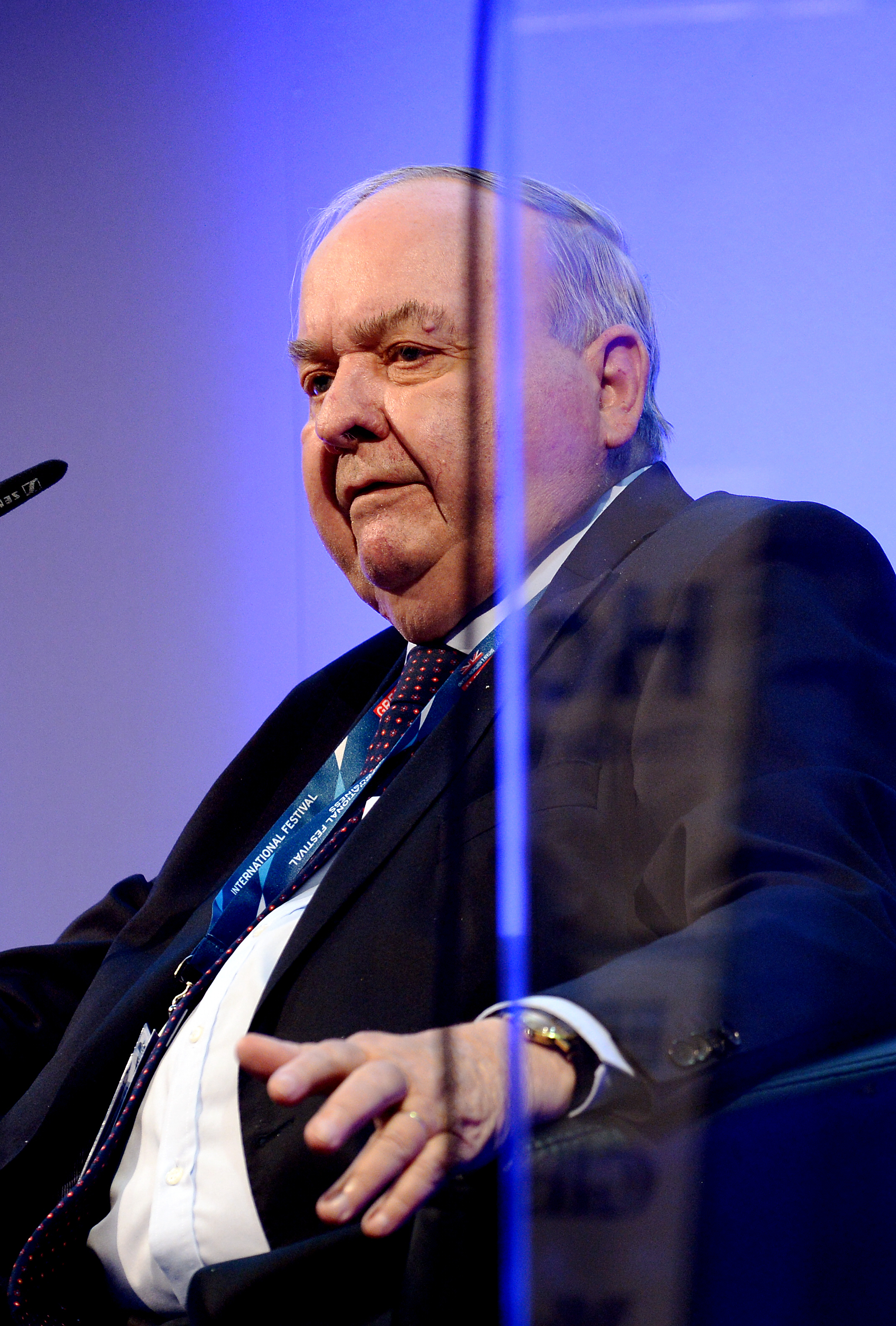 Henning Christophersen at the Horasis Global Meeting, Liverpool, June 13-14, 2016